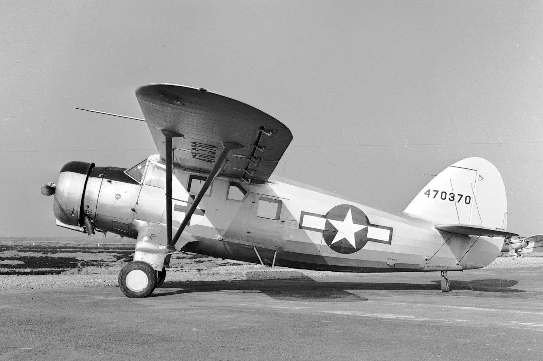 At Palo Alto, CA, on Sept 30, 1945. Exposure 1/10th at f.16 on the Graflex. The Red Cross for ambulance use is under the wing on the fuselage.